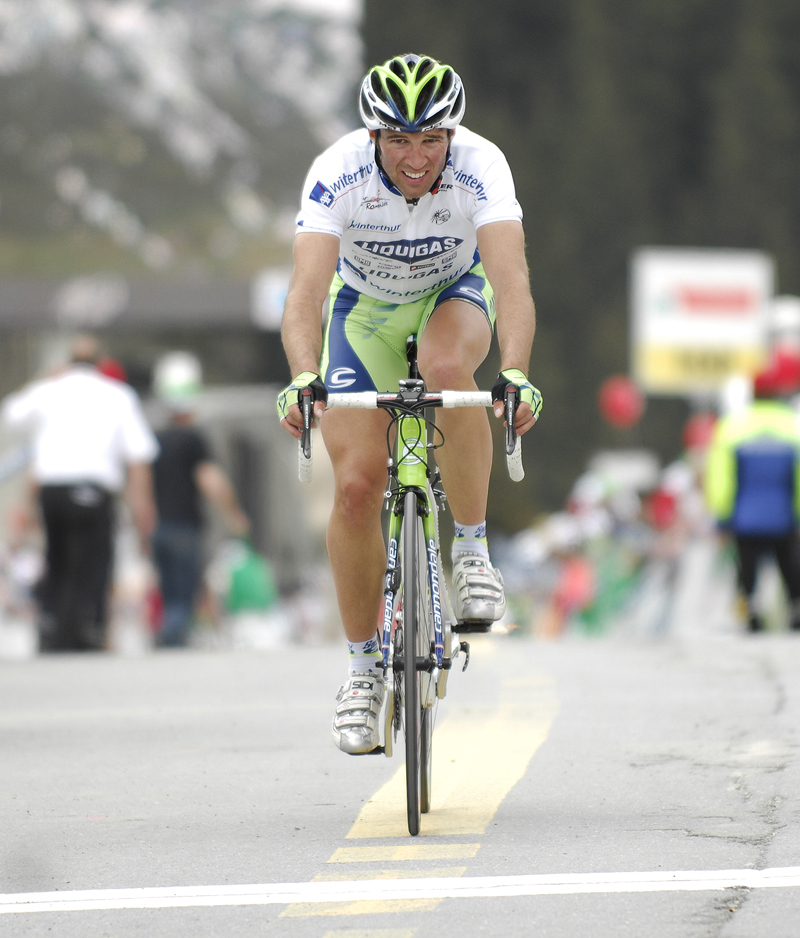 Swiss Michael Albasini of the Liquigas team crosses the line in Zinal at the end of the 4th stage of the Tour de Romandie